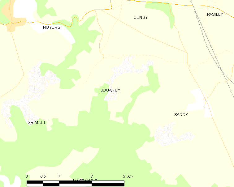 Map of French municipality Jouancy